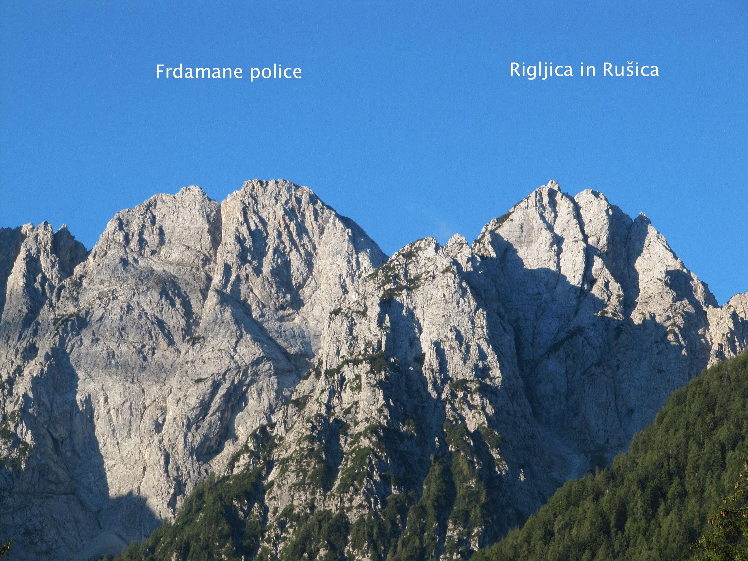 left to right: Frdamane police, Rigljica, Rušica (mountains), Julian Alps, Slovenia